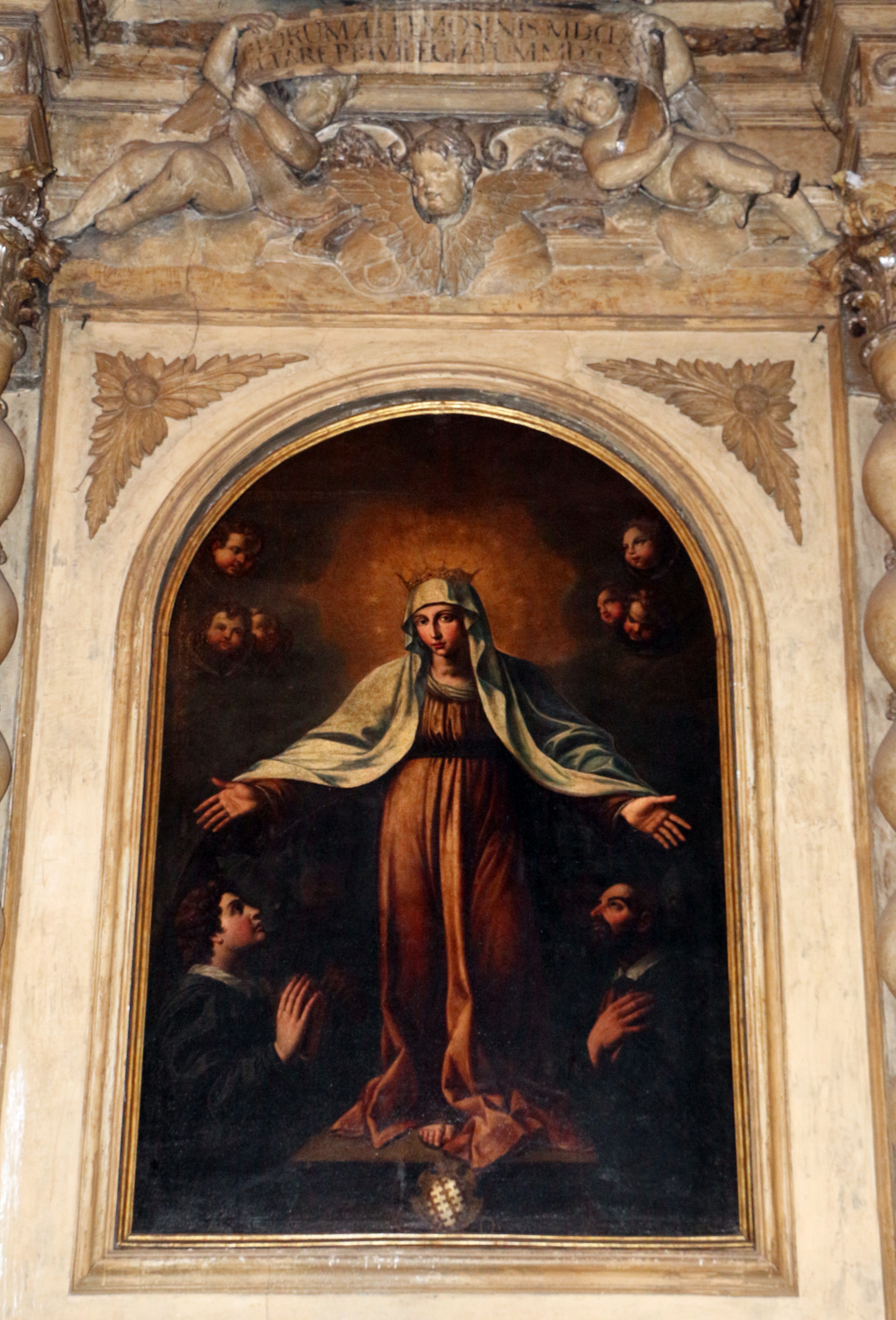 Duomo (Sansepolcro)